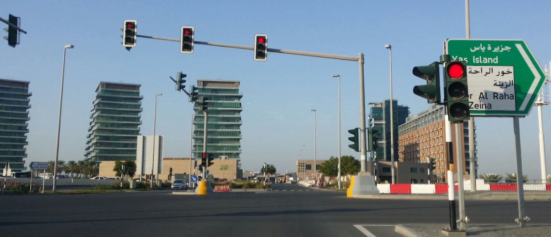 Scenery of Al Bandar, Al Raha Beach, Abu Dhabi, UAE taken from the road outside the community, heading to the gate.